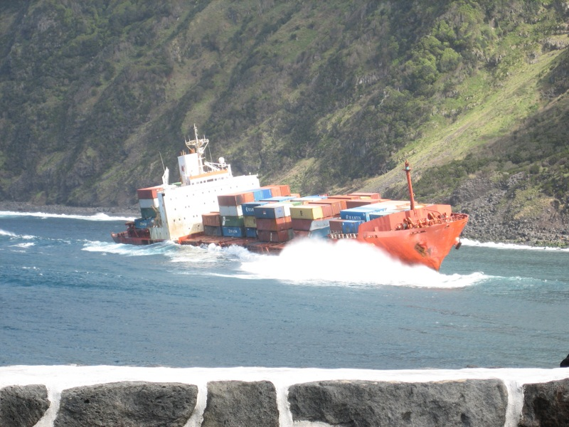 Container ship CP Valour after a grounding, being pounded by waves.